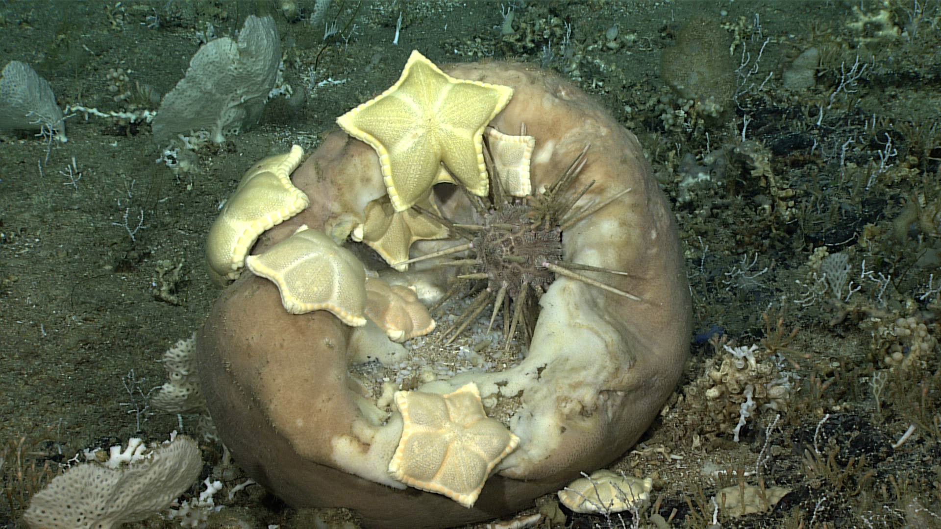 Eight “cookie stars” (Peltaster placenta and Plinthaster dentatus) and a sea urchin (Cidaris rugosa) were seen feeding on a large barrel sponge (Geodia) off the coast of South Carolina during the Windows to the Deep 2019 expedition.